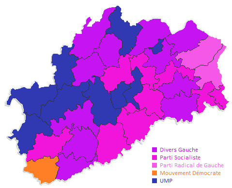 Township composition of the General Council of Haute-Saone